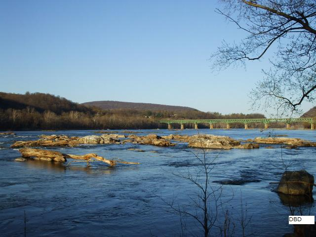 Harpers Ferry and the bridge overlooking sides of Maryland and West Virginia. (Taken from West Virginia)